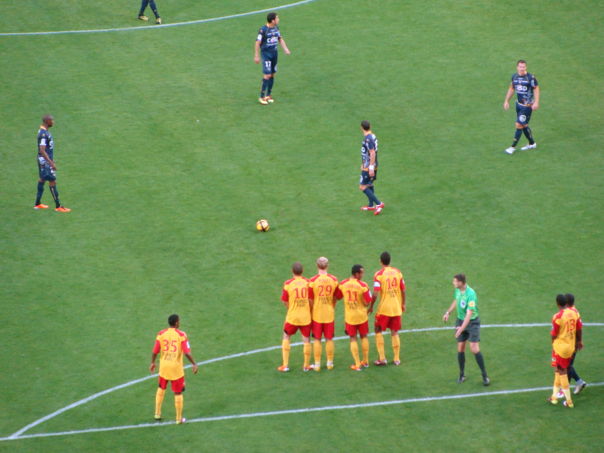 Lens Arles Avignon 2011